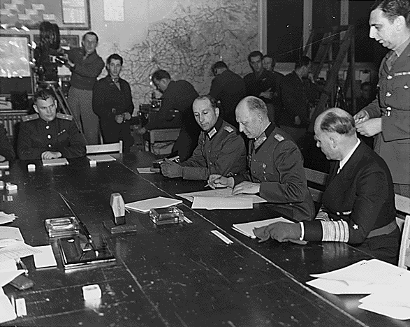 From left to right: Major Wilhelm Oxenius (Colonel General Jodl's Adjutant), Colonel General Alfred Jodl, Chief of OKW Operation Staff (who signed the Instrument of Surrender on behalf of the OKW), General admiral Hans-Georg von Friedeburg, Commander-in-Chief of the German navy (OKM), Major General Kenneth W. D. Strong (standing), G-2, SHAEF. Location: Reims, France, American Headquarters